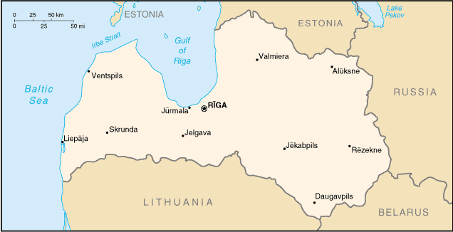 map of Latvia (CIA)